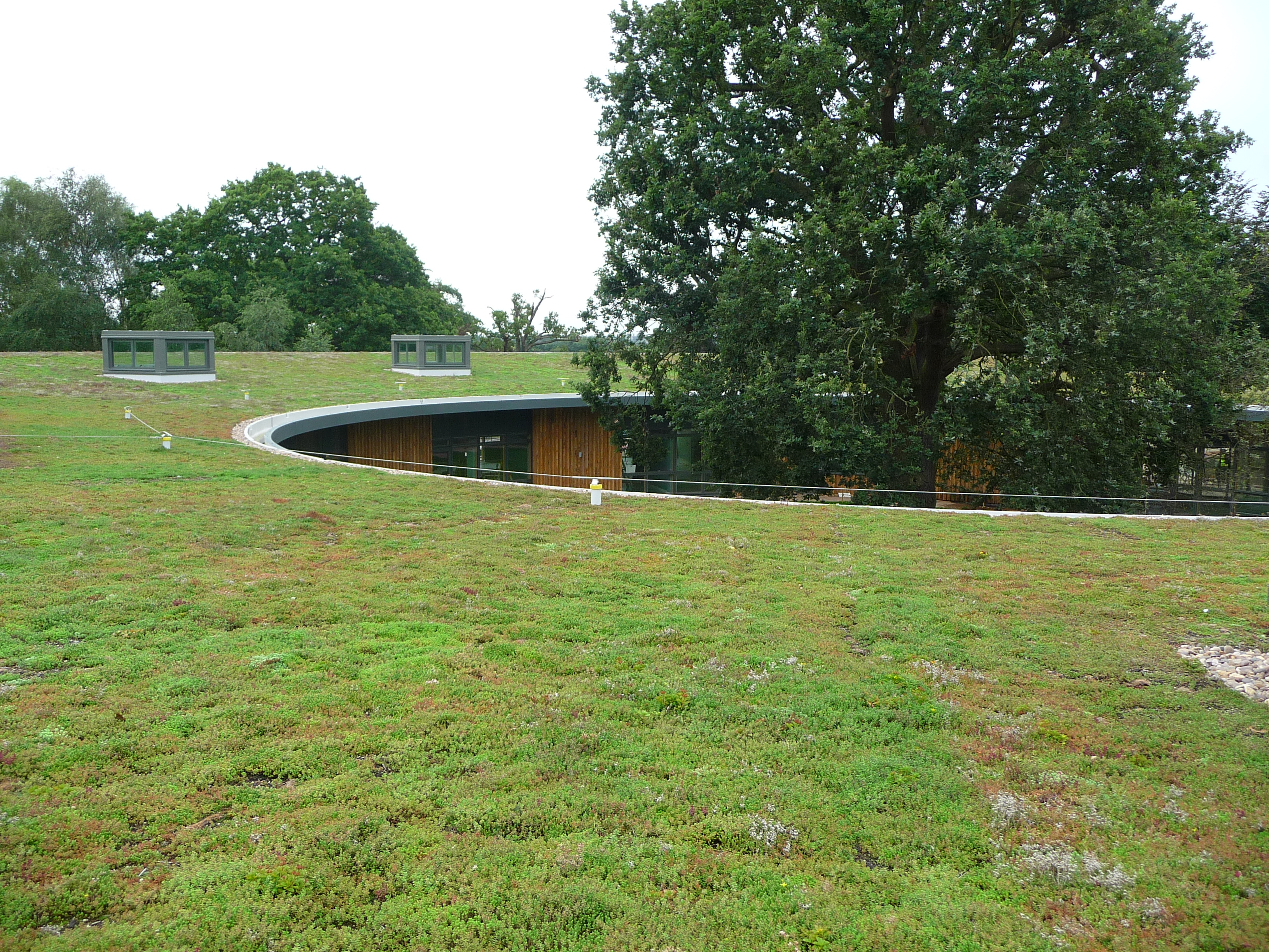 A view across the Sky Garden green roof showing the ancient oak tree standing at the centre of the British Horse Society Headquarters.